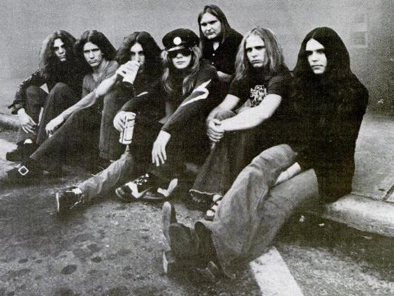 Trade ad for Lynyrd Skynyrd's single "Gimme Three Steps".To better adapt it to his respective Wikipedia article, the ad was cropped and cleaned in a graphics editing program. The original can be viewed at the source below.